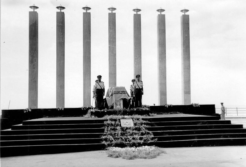 Tel aviv, Cities in Israel